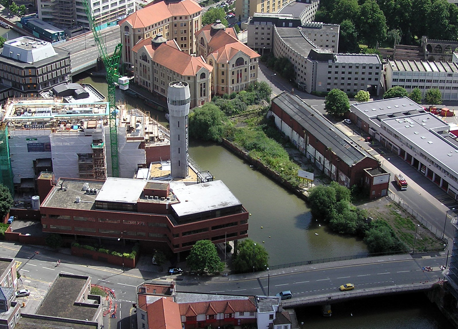 The Shot Tower, Bristol, England, from a tethered passenger balloon at 500 feet. The original shot tower (it has now been demolished) was the first in the world, built in 1782 at Cheese Lane in central Bristol. The Bristol inventor of the technique of making shot said the tower was for "making small shot perfectly globular in form and without dimples, notches and imperfections which other shot hereto manufactured usually have on their surface” It was demolished in 1968 for road widening and immediately replaced with the 140 foot concrete tower in the picture. Production of lead shot continued until 1995 but has now stopped, and the tower is gradually being surrounded by new offices, with an office at the very top of the tower. The "river" in the picture is an artificial channel called the Floating Harbour. The River Avon flows through Bristol but is tidal and muddy, so a new channel, controlled by locks, was dug through the central part of the city and part of the river water diverted through it. At the shot tower location the River Avon is about 0.3 miles distant.